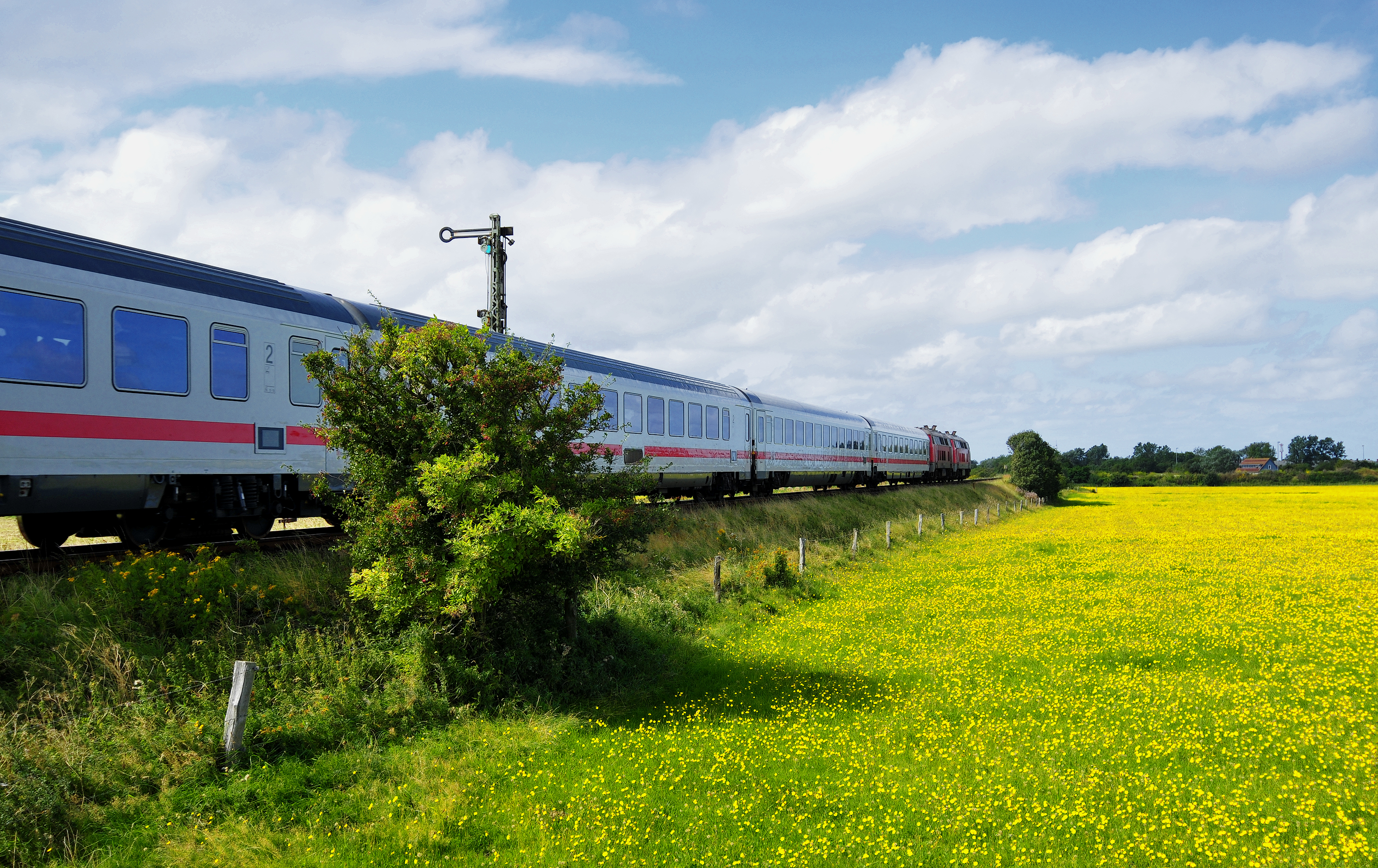 The German Intercity powered by two DB Class 218 diesel hydraulic locomotives drives on the North Frisian island of Sylt passing a meadow with buttercup.